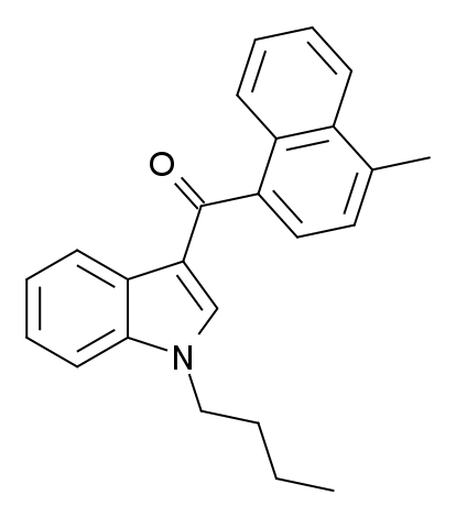 Structure of 4'-methyl-JWH-073